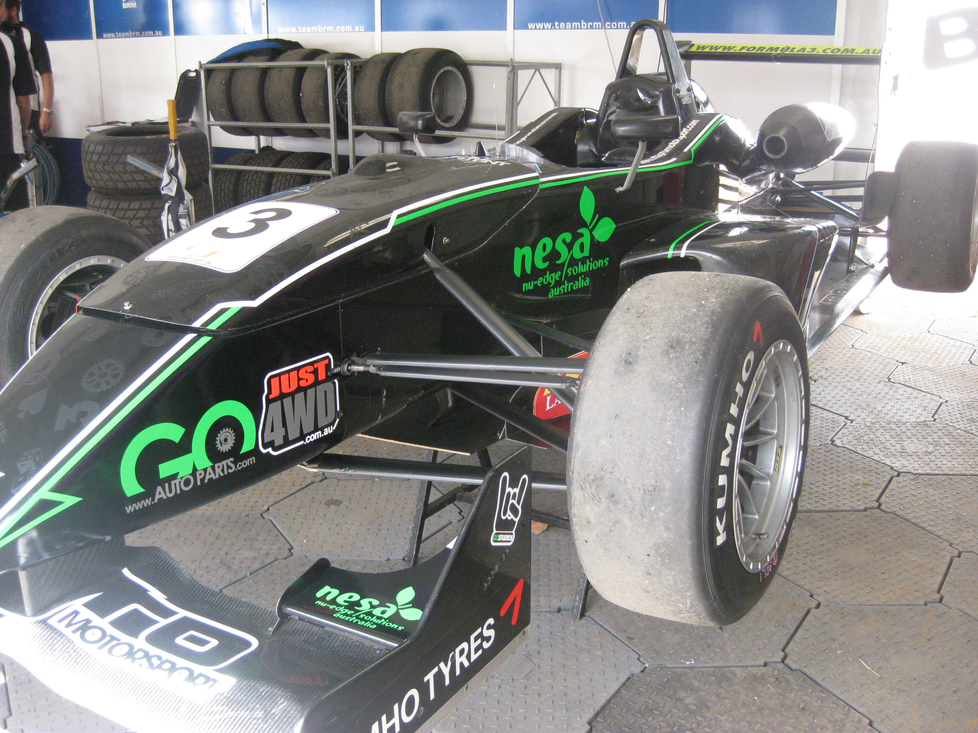 The Dallara F307 Mercedes-Benz of John Magro at the Adelaide Parklands Circuit for the opening round of the 2012 Australian Drivers' Championship.